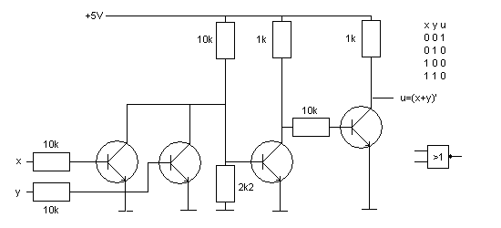 NOR Gate